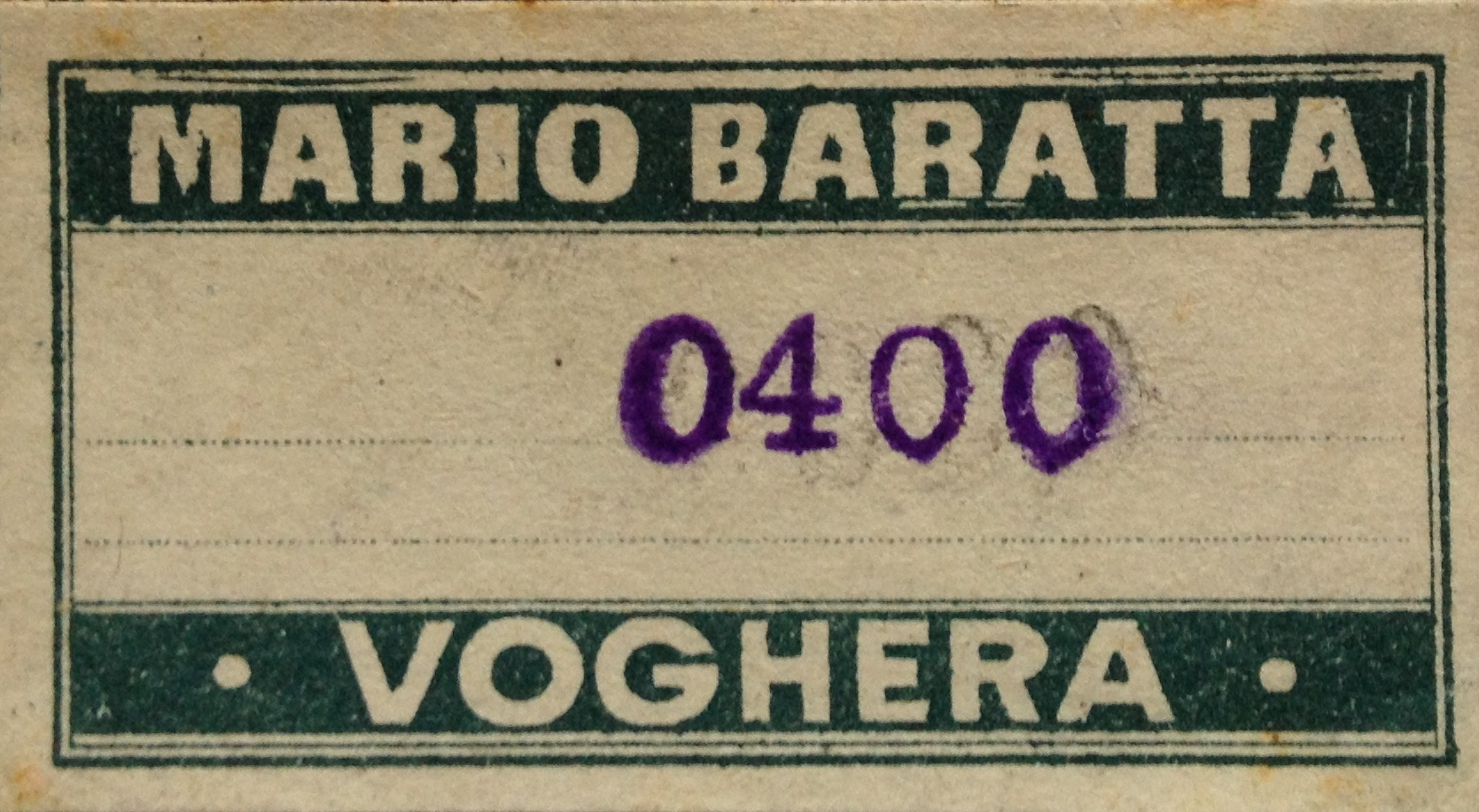 Mario Baratta library label